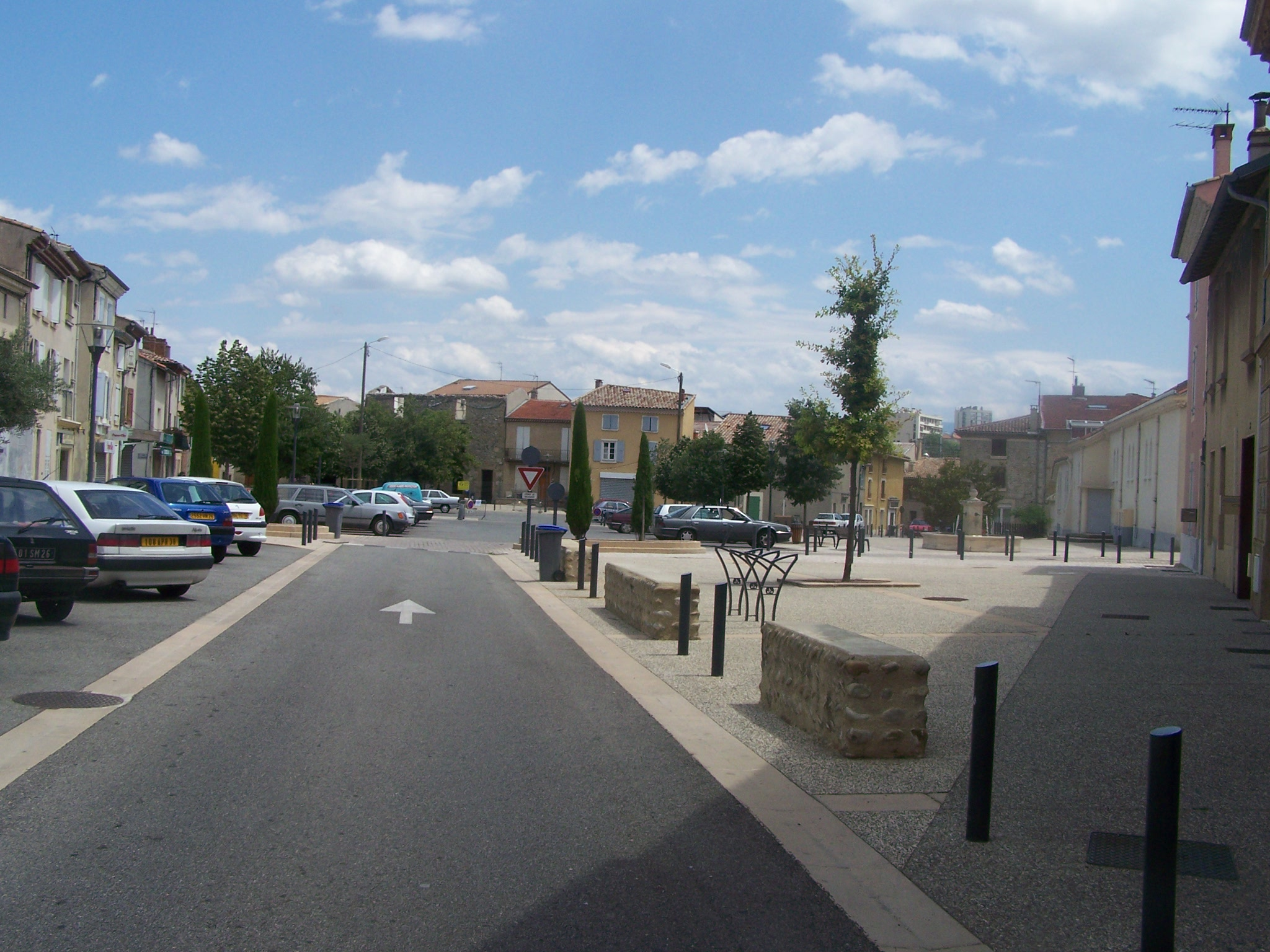 The French commune of Bourg-lès-Valence center, in the department of Drôme.